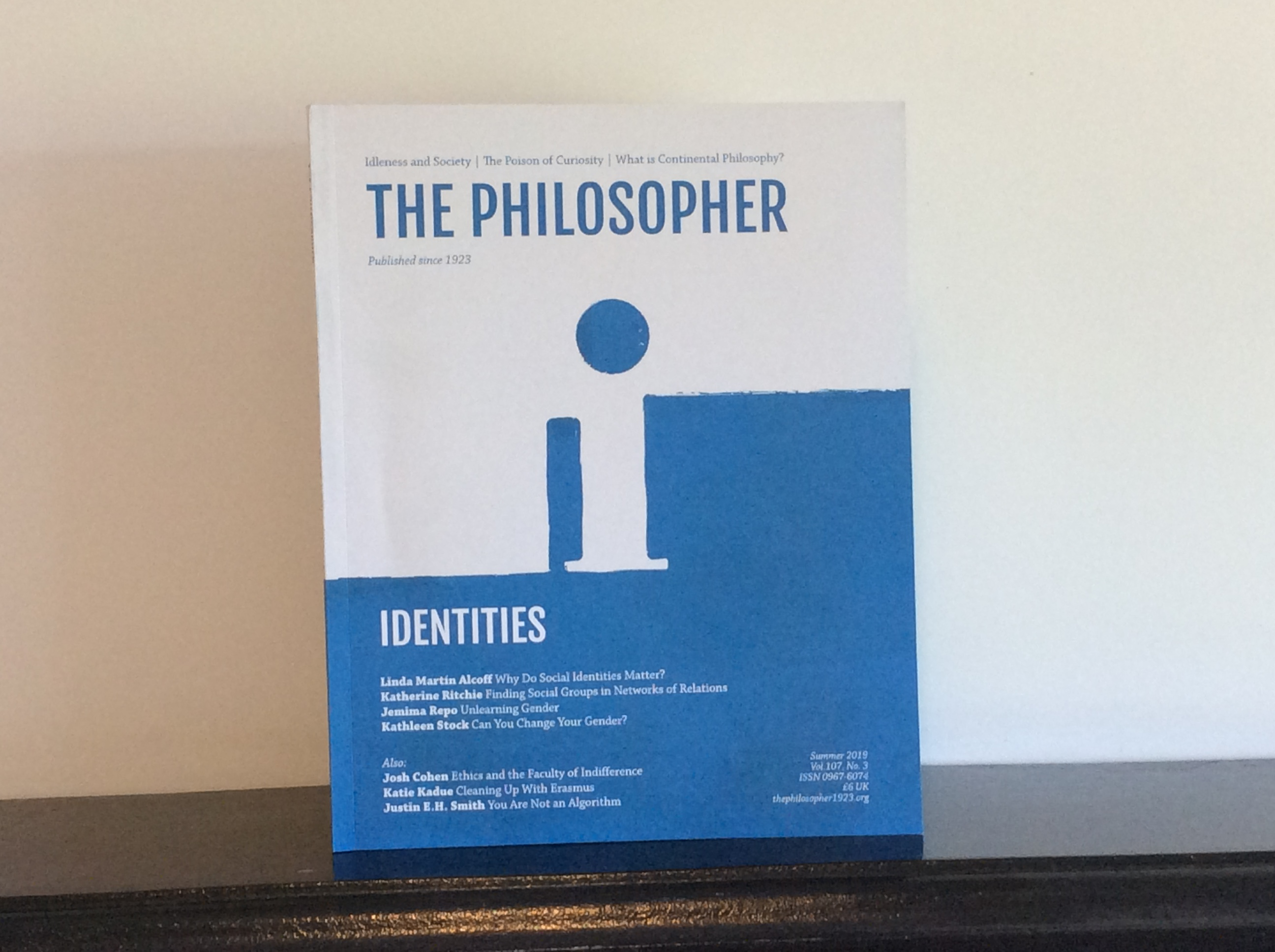 Front cover for summer 2019 issue